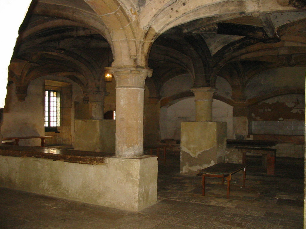 Convento de Cristo in Tomar: kitchen